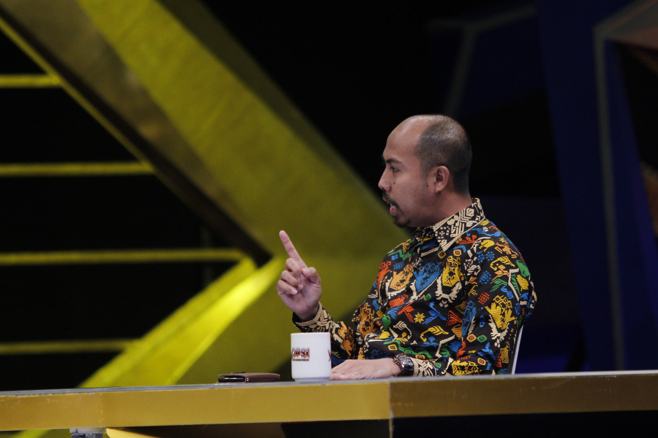 hermawan saputra